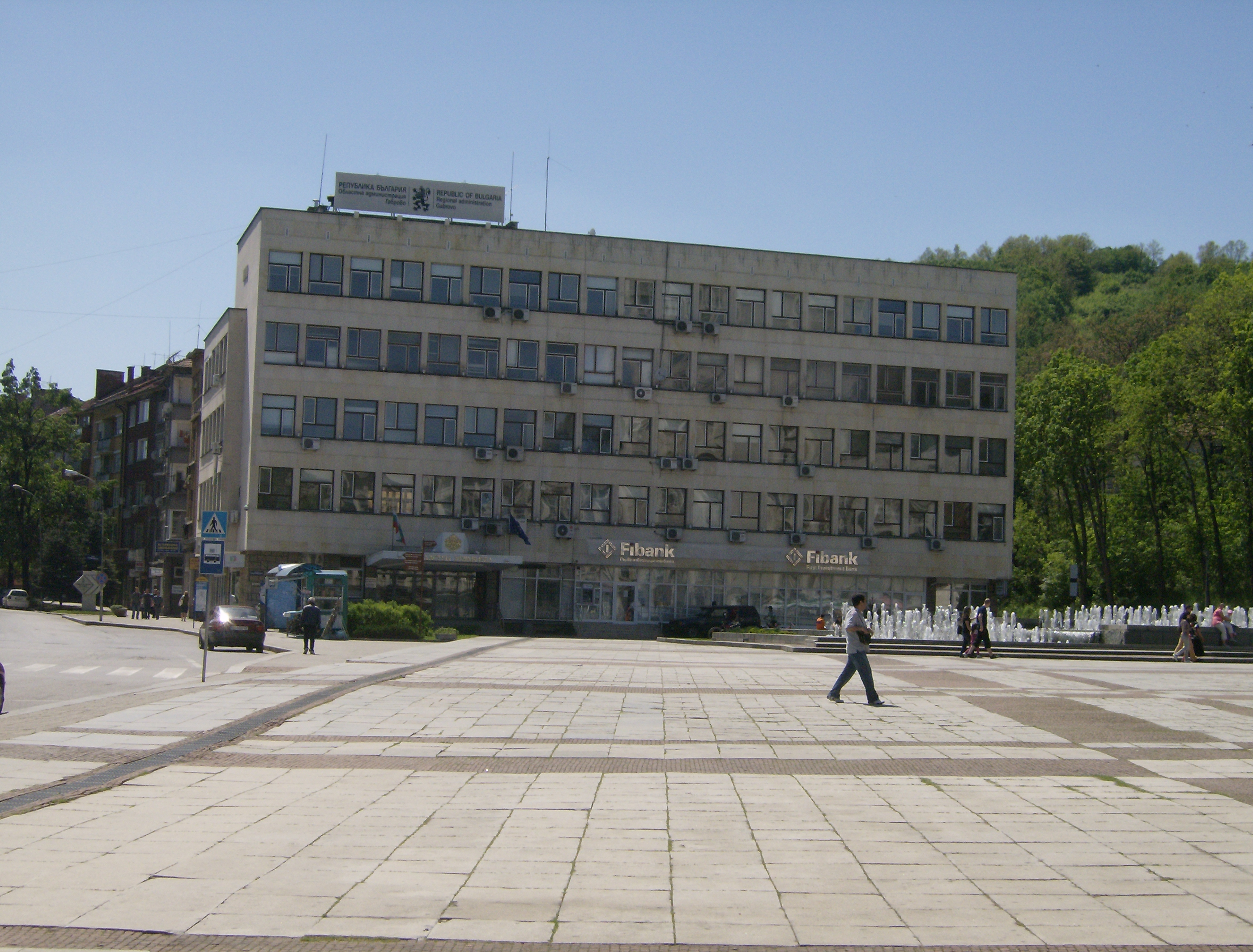 Oblast Gabrovo